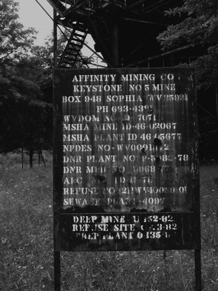 Affinity WV Mine Site sign